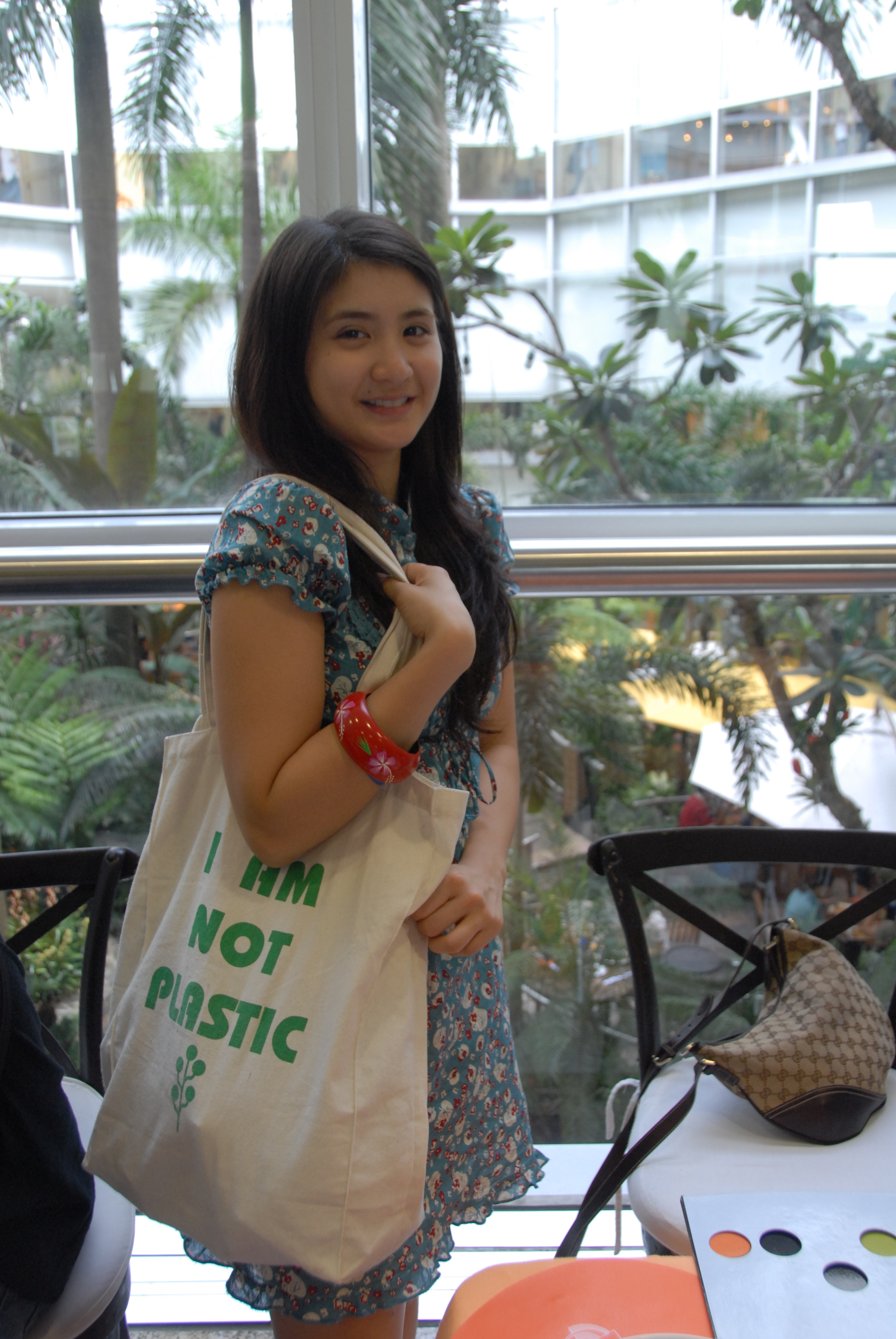 check it all out at the NOT PLASTIC PROJECT website